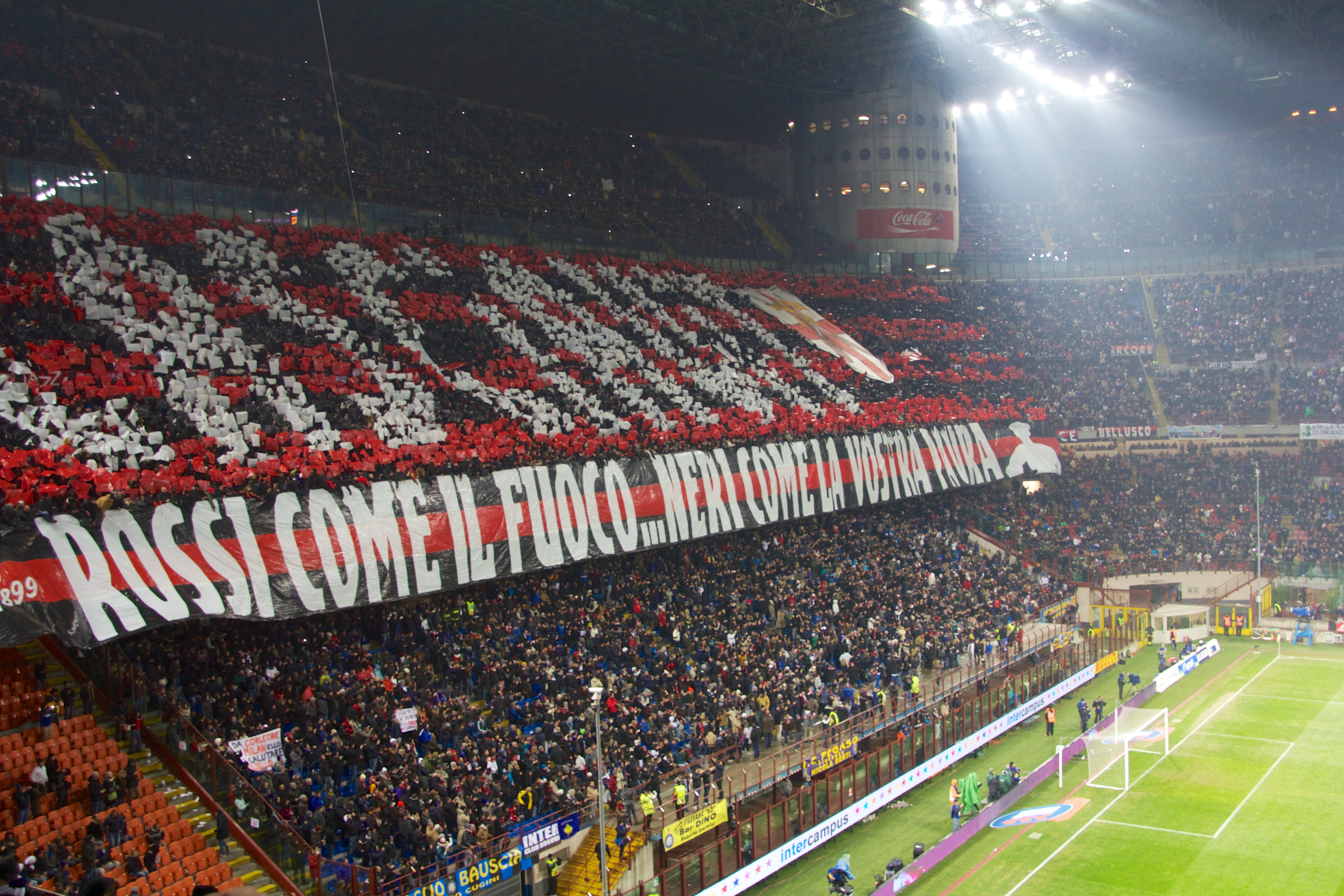 Choreography for FC Inter Milan-AC Milan match on 24th february 2013